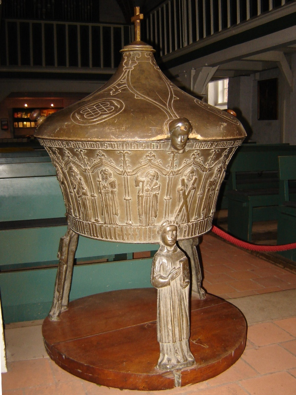 Mueden/Oertze, Lower Saxony (Germany), baptismal font from 1473 in the Church